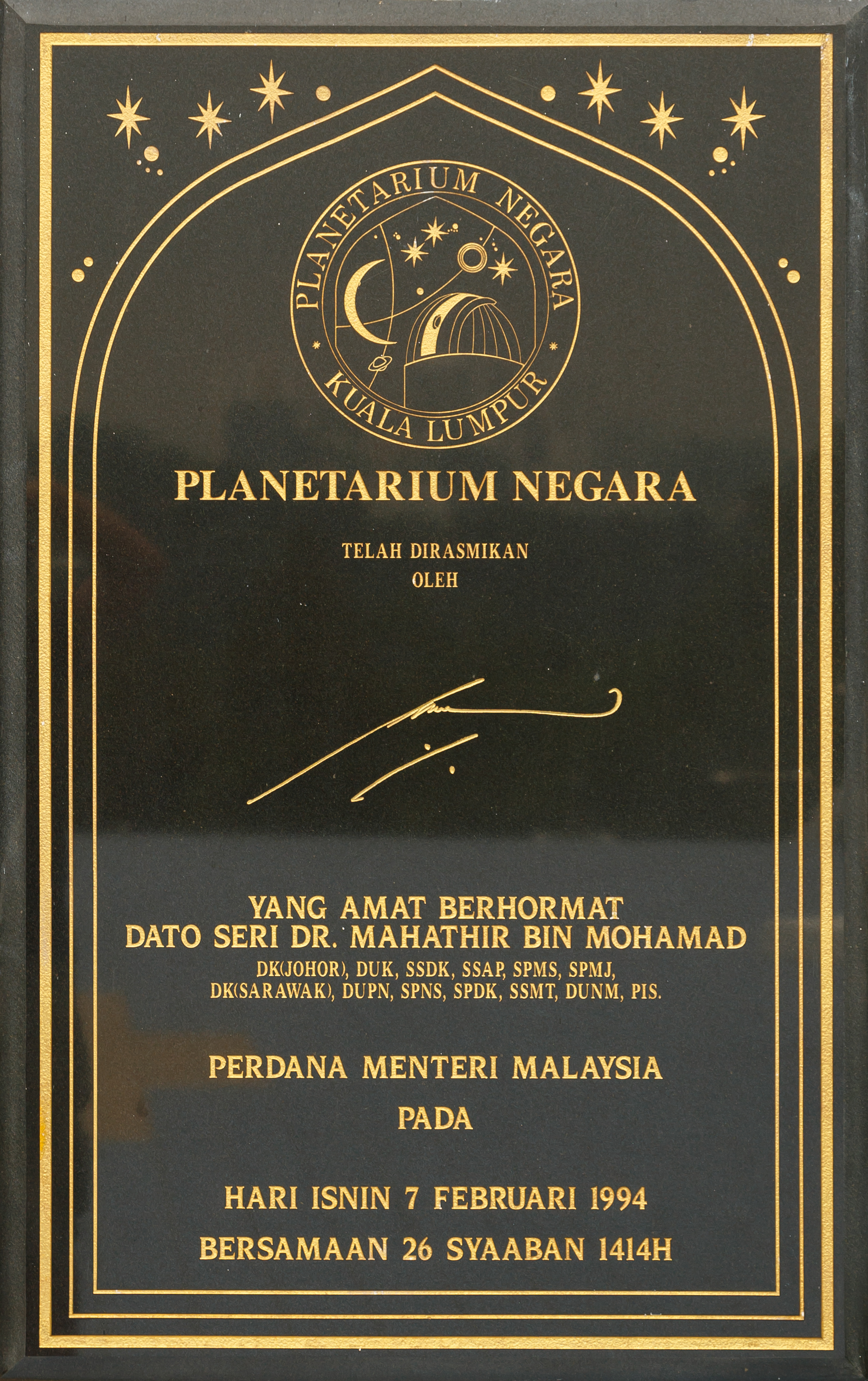 Kuala Lumpur, Sabah: Inaugurational plaque of Planetarium Negara (National Planetarium)